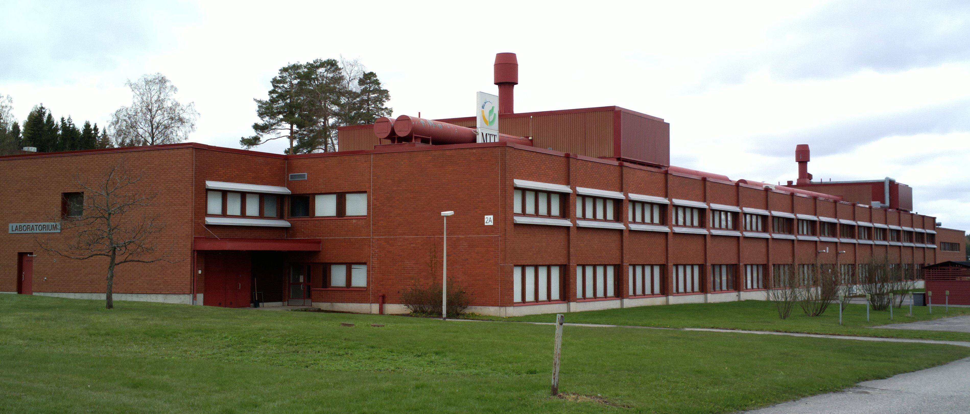 One of the MTT agrifood research institute buildings in Jokioinen